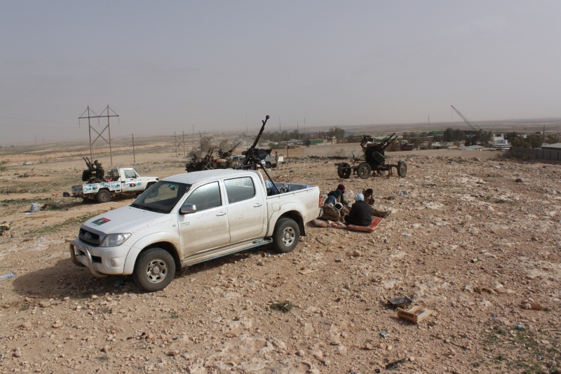 At the main checkpoint near the strategic oil town of Brega, men with what appeared to be better equipment and gear than their untrained comrades began to assemble. They wore emblems indicating their position as engineers or paratroopers and said they were defected "special forces" from Benghazi who were awaiting orders. Despite their more impressive appearance, they still seemed to lack the kind of discipline one might see in Western militaries, or perhaps even Gaddafi's own forces.